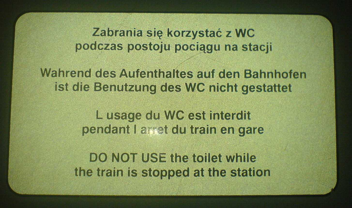 Multilingual notice on Polish passengers train toilets discouraging passengers from using the toilet while the train is stopped at the station. Polish railways are using the 'hole in the floor' system.